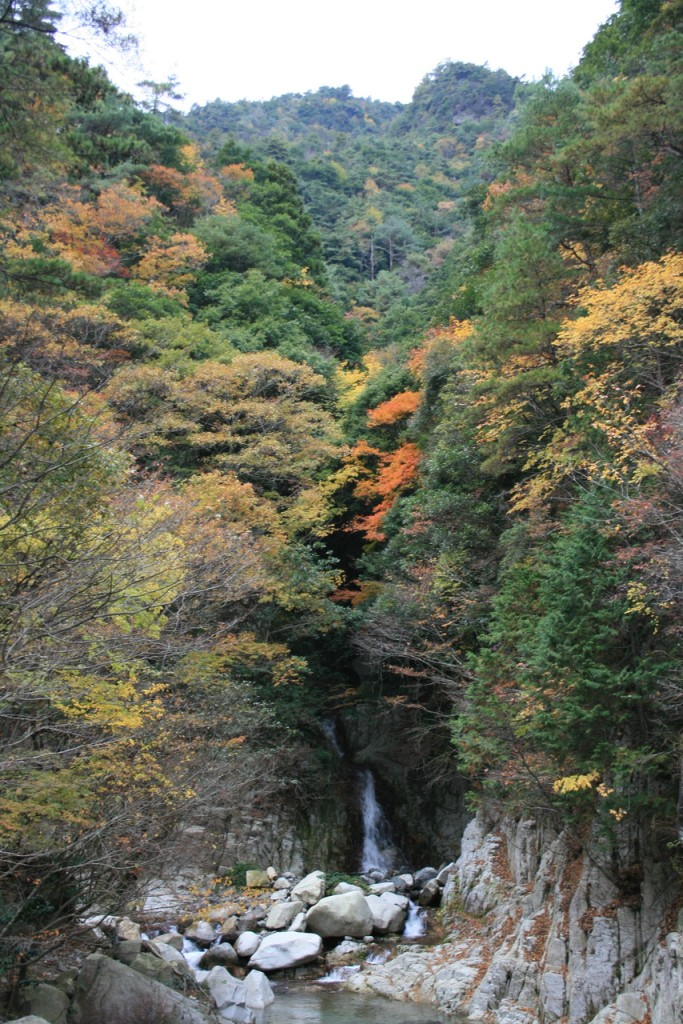 Ugakei_2009-11-20